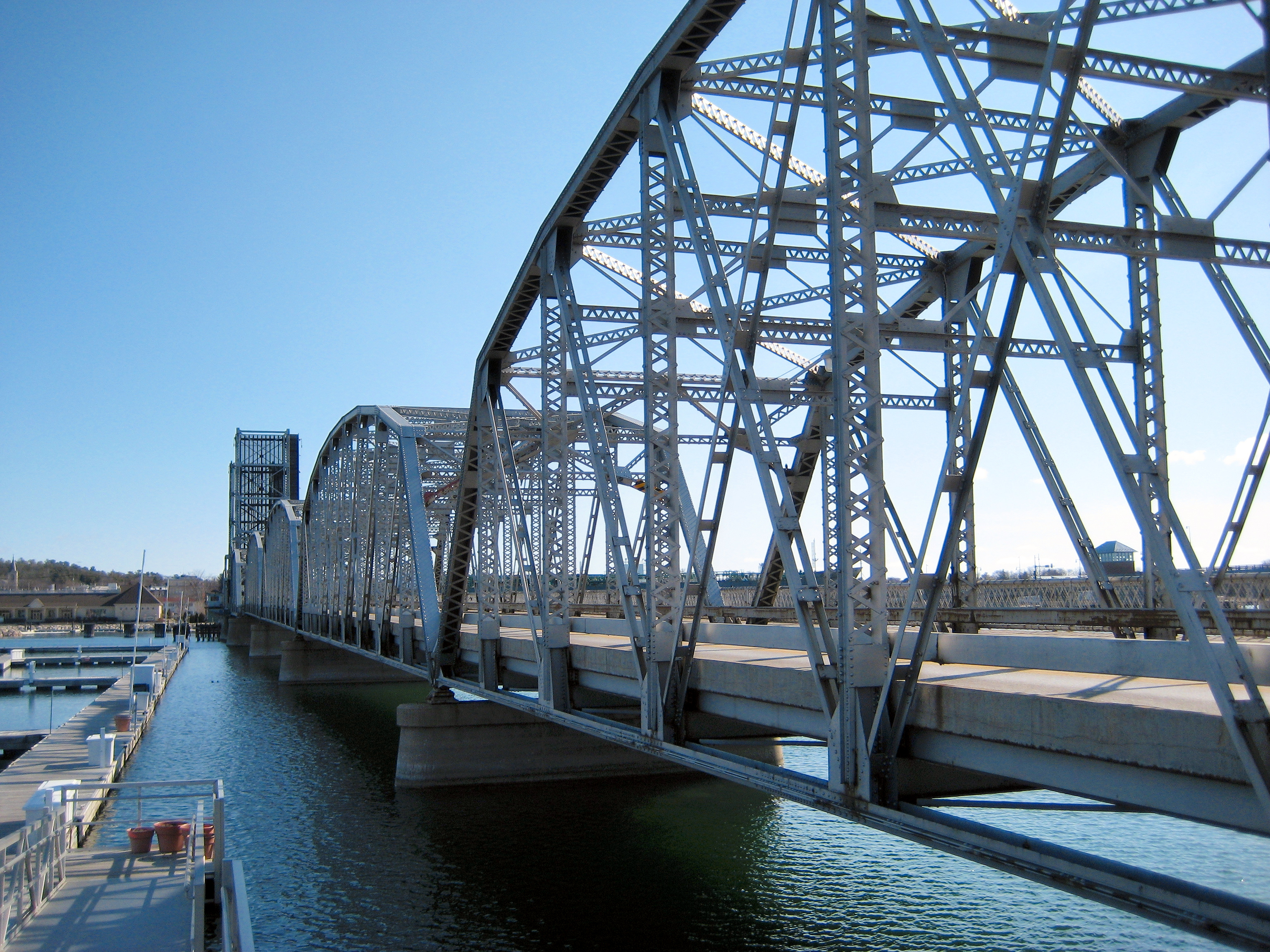 A view of the Sturgeon Bay Bridge, a historic bridge listed on the National Register of Historic Places.